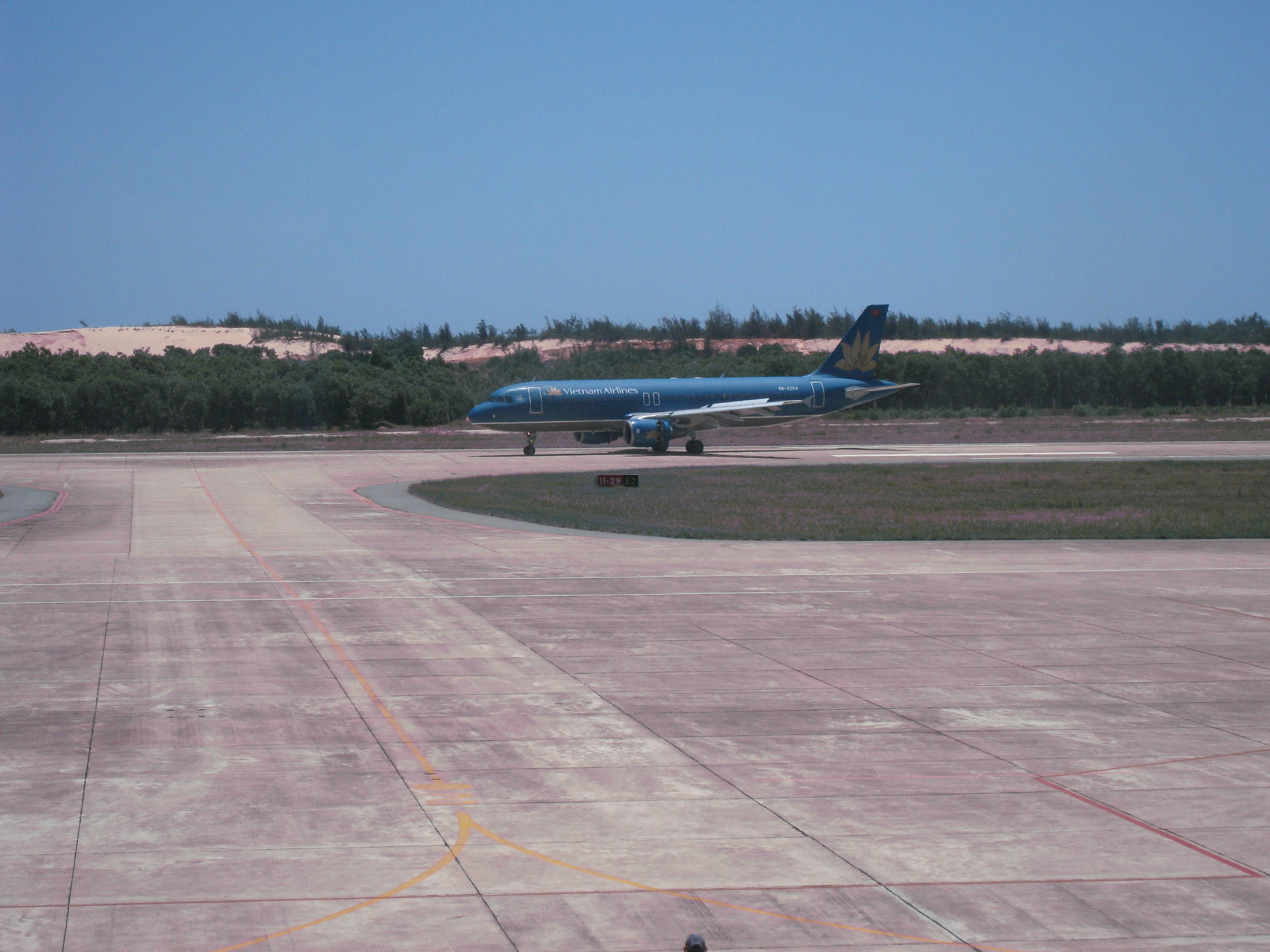 An Airbus A320 in Vietnam Airlines' livery at Dong Hoi Airport